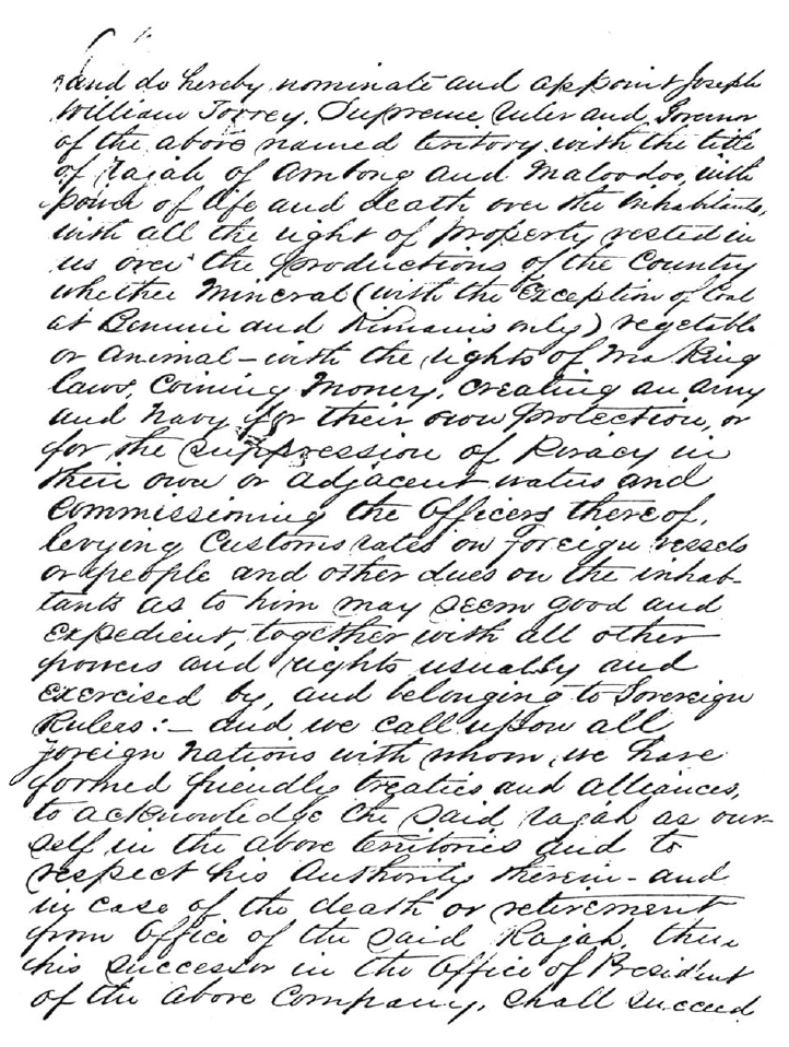 Document (Part 2 of 3), with the grants, the Sultan of Brunei vested to Joseph William Torrey, November 24 1865 and do hereby nominate and appoint Joseph William Torrey Supreme Ruler and Governor of the above named territory with the title of Rajah of Ambong and Maloodoo with power of life and death over the inhabitants with all the righst of property vested in us over the productions of the country wether mineral (with the exception of coal at Benoni and Kimanis only) vegetable or animal – with the rights of making laws, coining money, creating an army and navy for their own protection, or for the suppression of piracy in their area or adjacent waters and commissioning the officers thereof, levying custom rates om foreign vessels or people and other dues on the inhabitants as to him may seem good and expedient, together with all other forces and rights usually and exercised by, and belonging to Sovereign Rulers: - and we call upon all foreign nations with whom we have formed friendly treaties and alliances to acknowledge the said Rajah as ourself in the above territories and to respect this authority therein – and in case of the death or retirement from office of this said Rajah thenhis successor in the office of President of the above Company shall succeed.